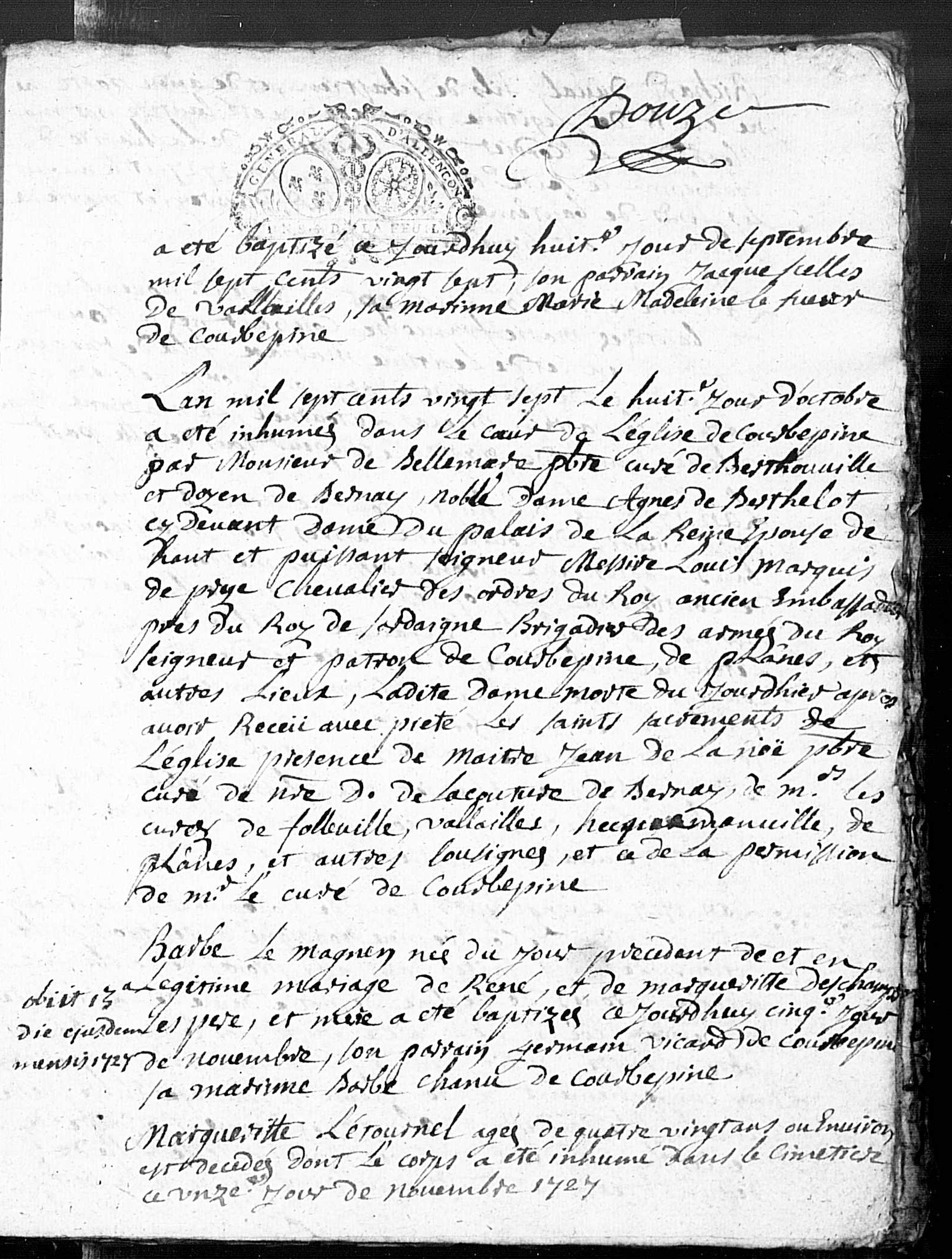 Excerpt of the vital records of Courbépine of 1727. Note of the burial of Jeanne-Agnès Berthelot de Pléneuf, marquise de Plasnes.